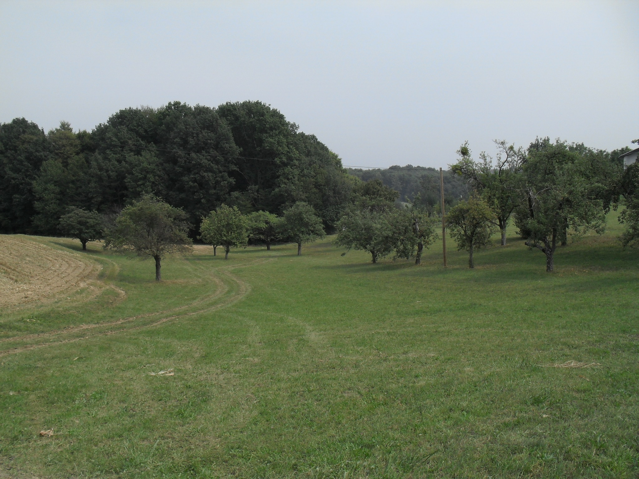 Field in Ivanovci, Prekmurje